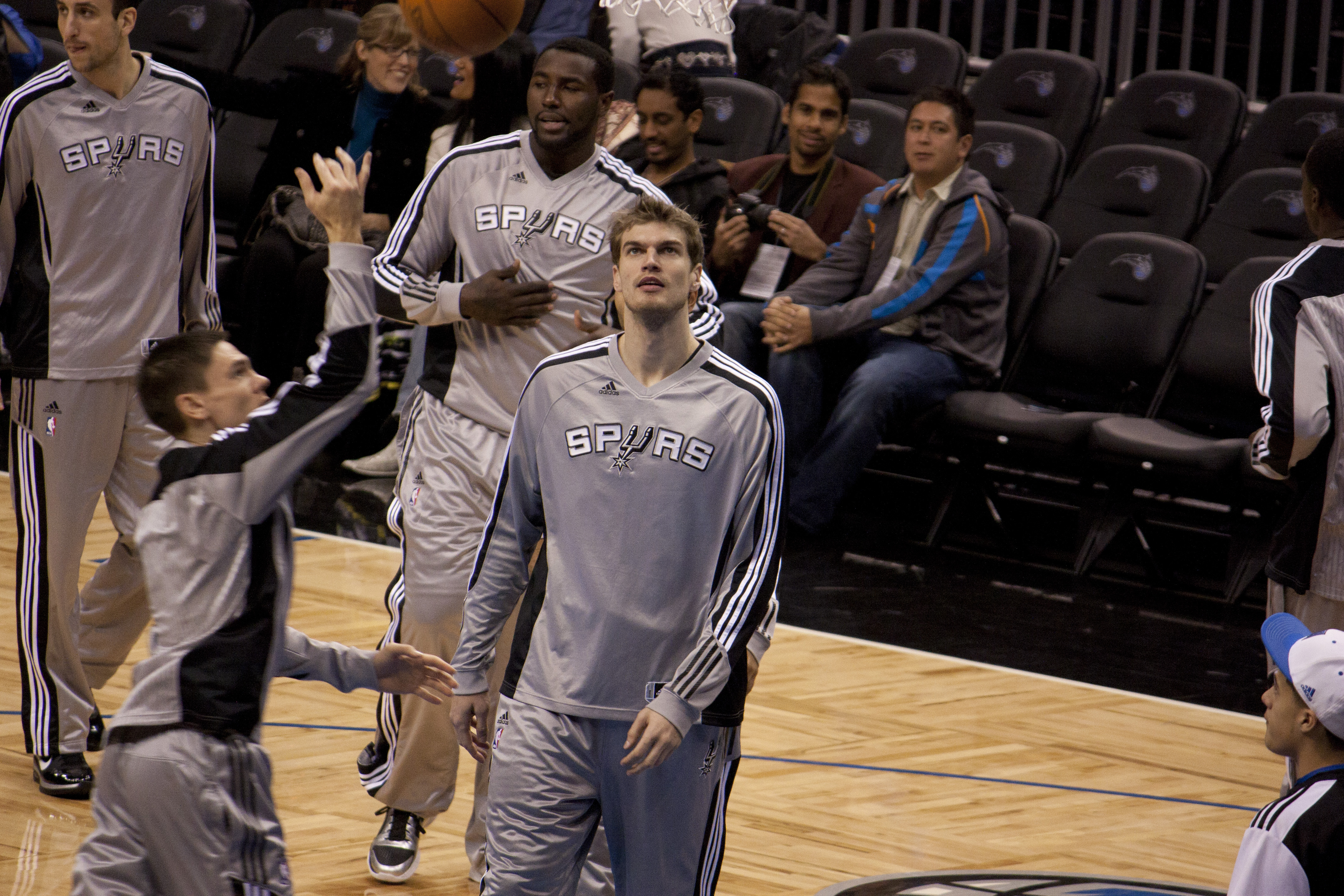 Tiago Splitter of the San Antonio Spurs.